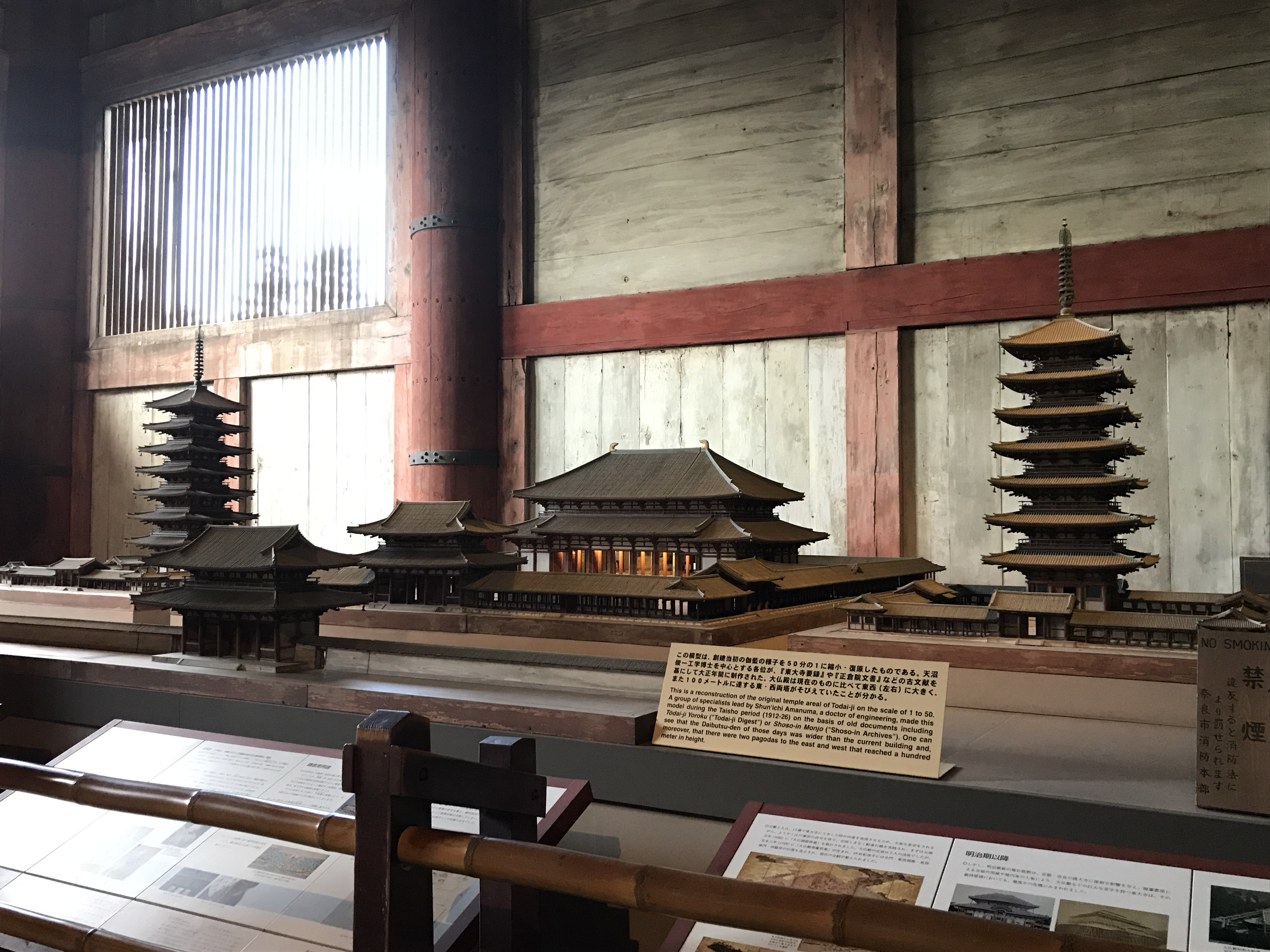 A diorama of the Tōdai-ji taken in December 2018.